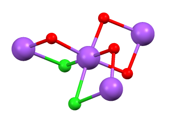 Coordination sphere of Na+ in NaCl(H2O)2 (H atoms omitted).